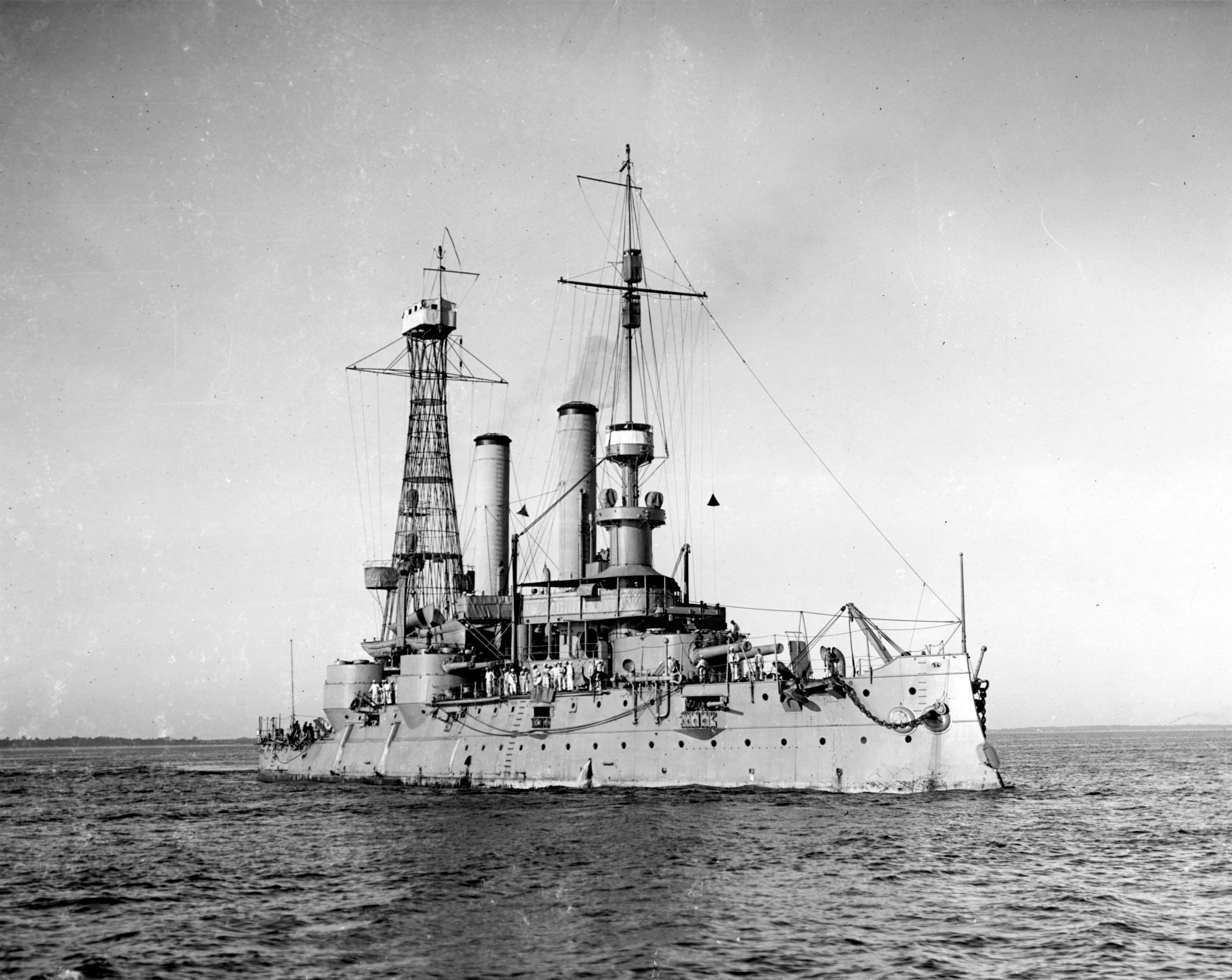 (Battleship # 4) Underway, circa 1918, during her World War I service. Photograph from the Bureau of Ships Collection in the U.S. National Archives.